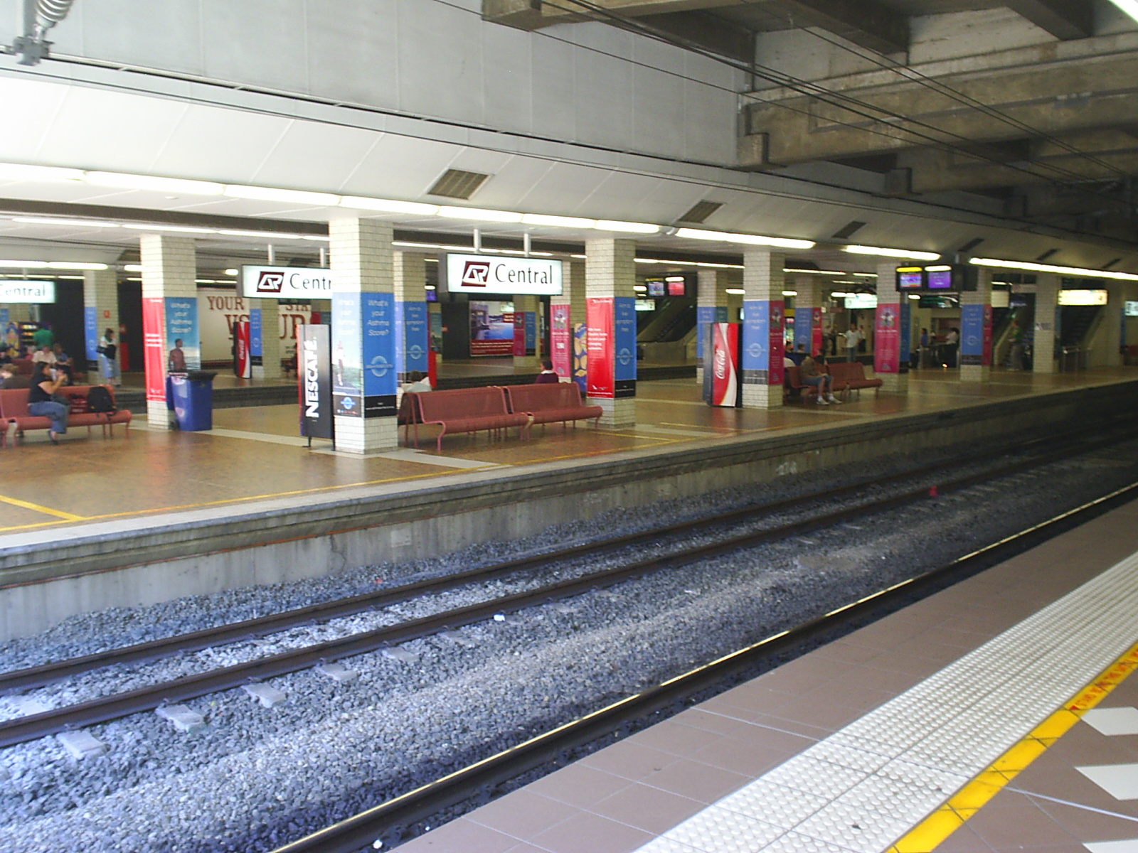 QR Central Station on platform 5 looking towards platforms 4-1. taken on 21/09/06 by Qld matt 11:41, 23 September 2006 (UTC)